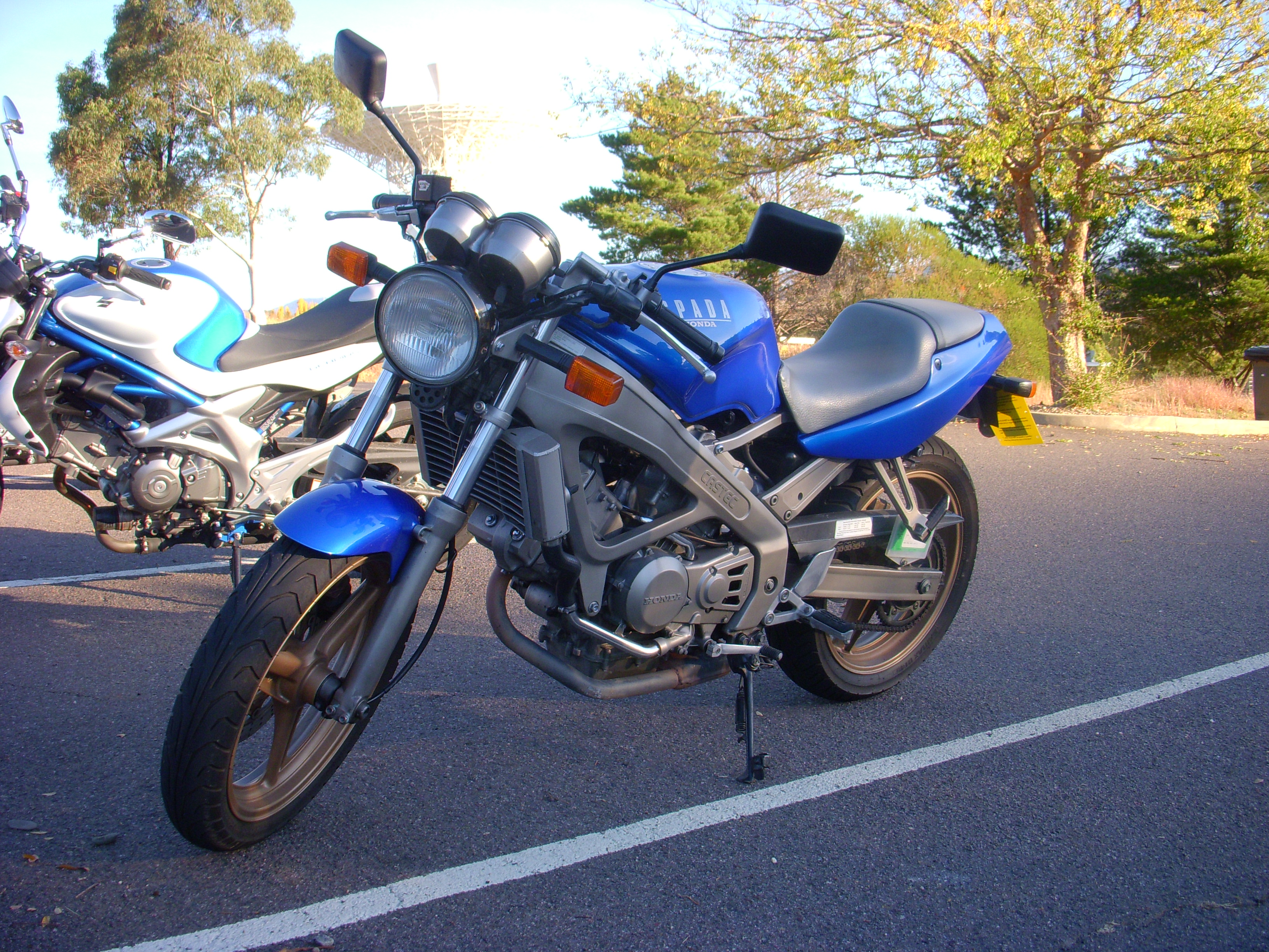 Front/side photo of a Honda VT250 Spada motorcycle